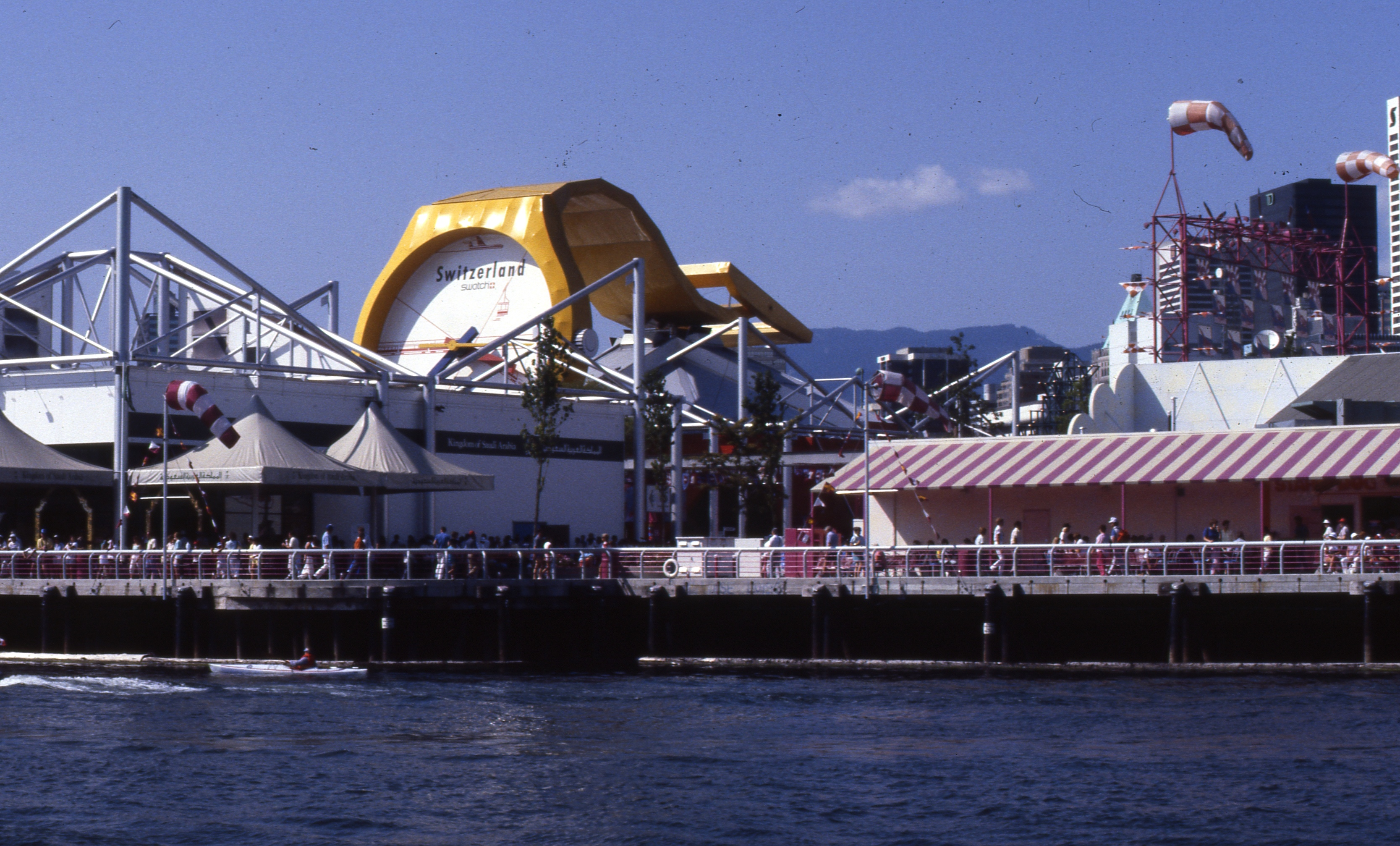 The Swiss Pavilion at Expo 86